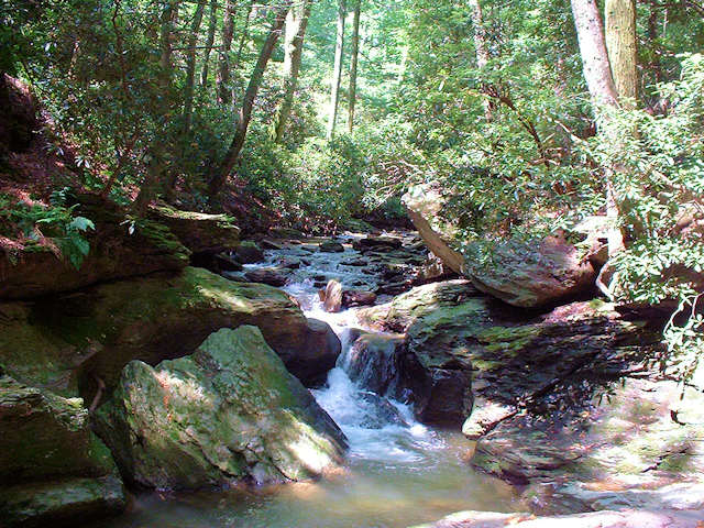 Tucquan Creek waterfall and pool in the Tucquan Glen Nature Preserve of the Lancaster County Conservancy. The photo is a bit less than a mile upstream from where Tucquan Creek empties into the Susquehanna River.